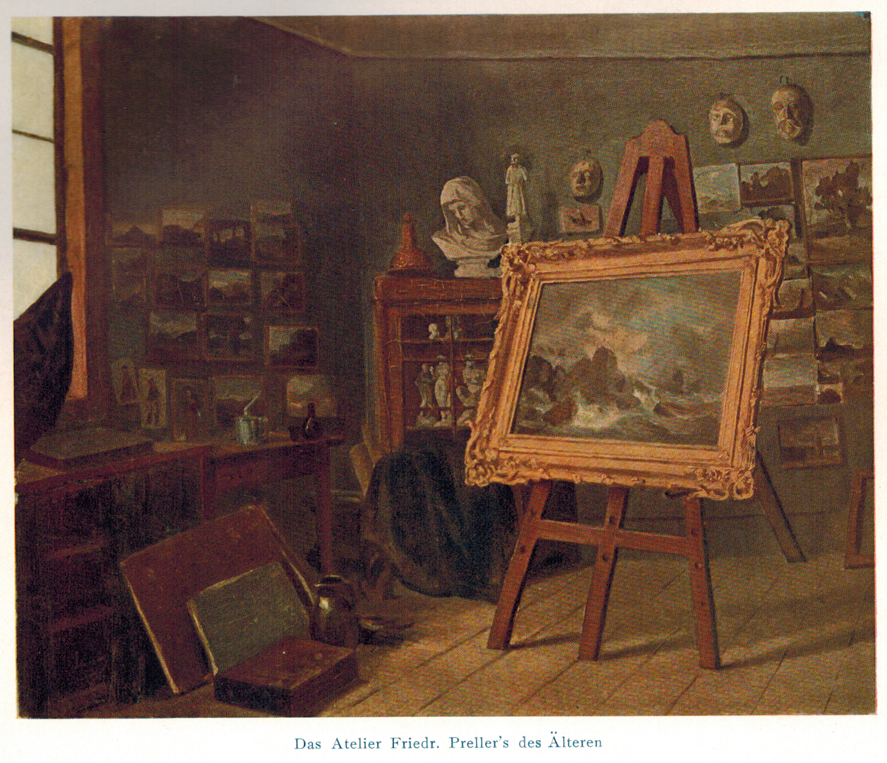 This is the first art work by Friedrich Preller the Younger representing his father's studio.